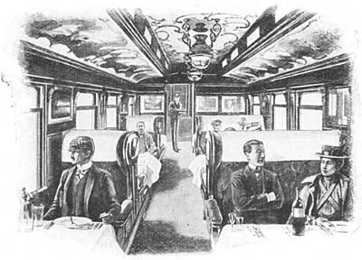 Interior of a Great Southern and Western Railway Company Dining Carriage.